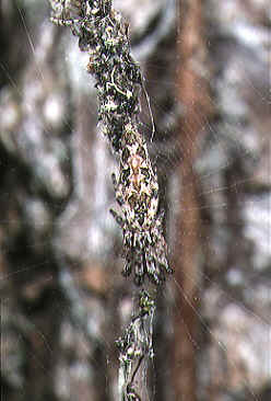 female Cyclosa angusta from Okinawa.